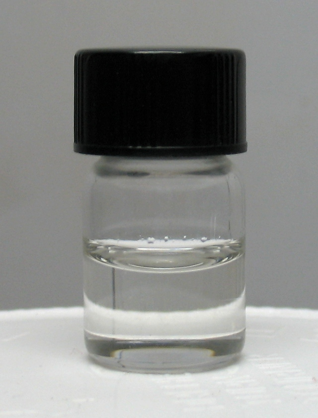 Ethylene diamine, reagent grade, 2 ml